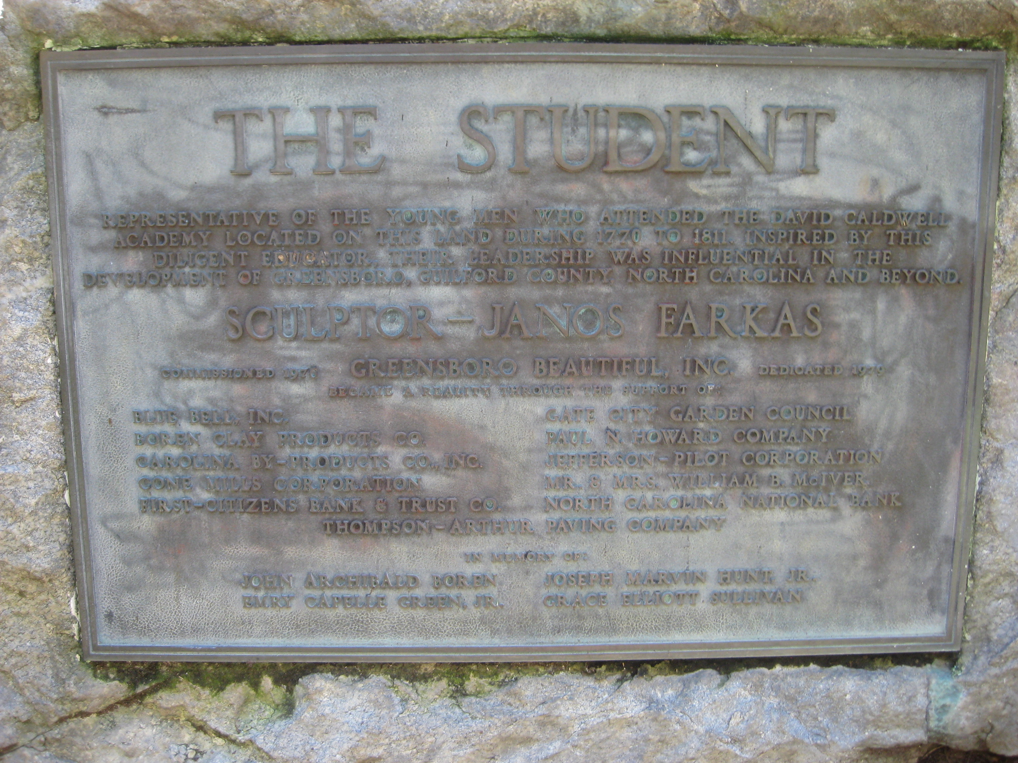 Plaque to "The Student" sculpture in the Bicentennial Gardens in Greensboro, N.C.